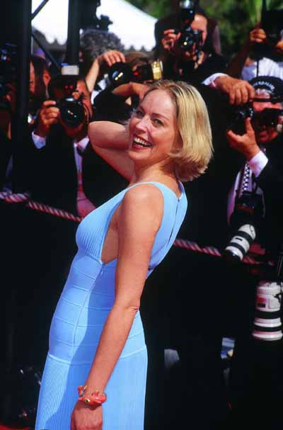 Sharon Stone in Cannes in 2002. My own picture. Created by Rita Molnár 2002.